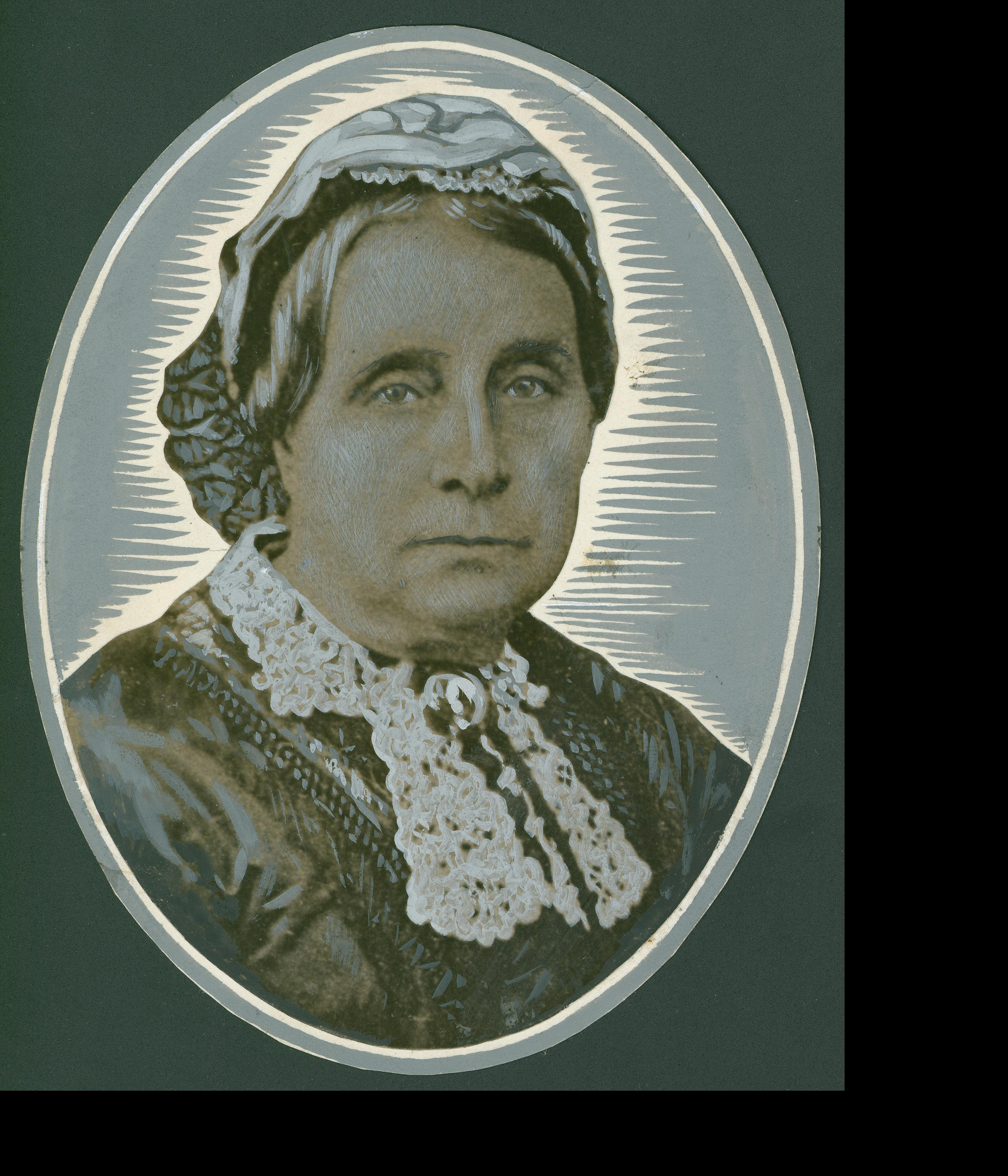 Portrait of Ann (not Anne) Margaret Bickford (nee Garrett 1810-1877), wife of William Bickford (1815-1850), founder of A. M. Bickford & Sons.